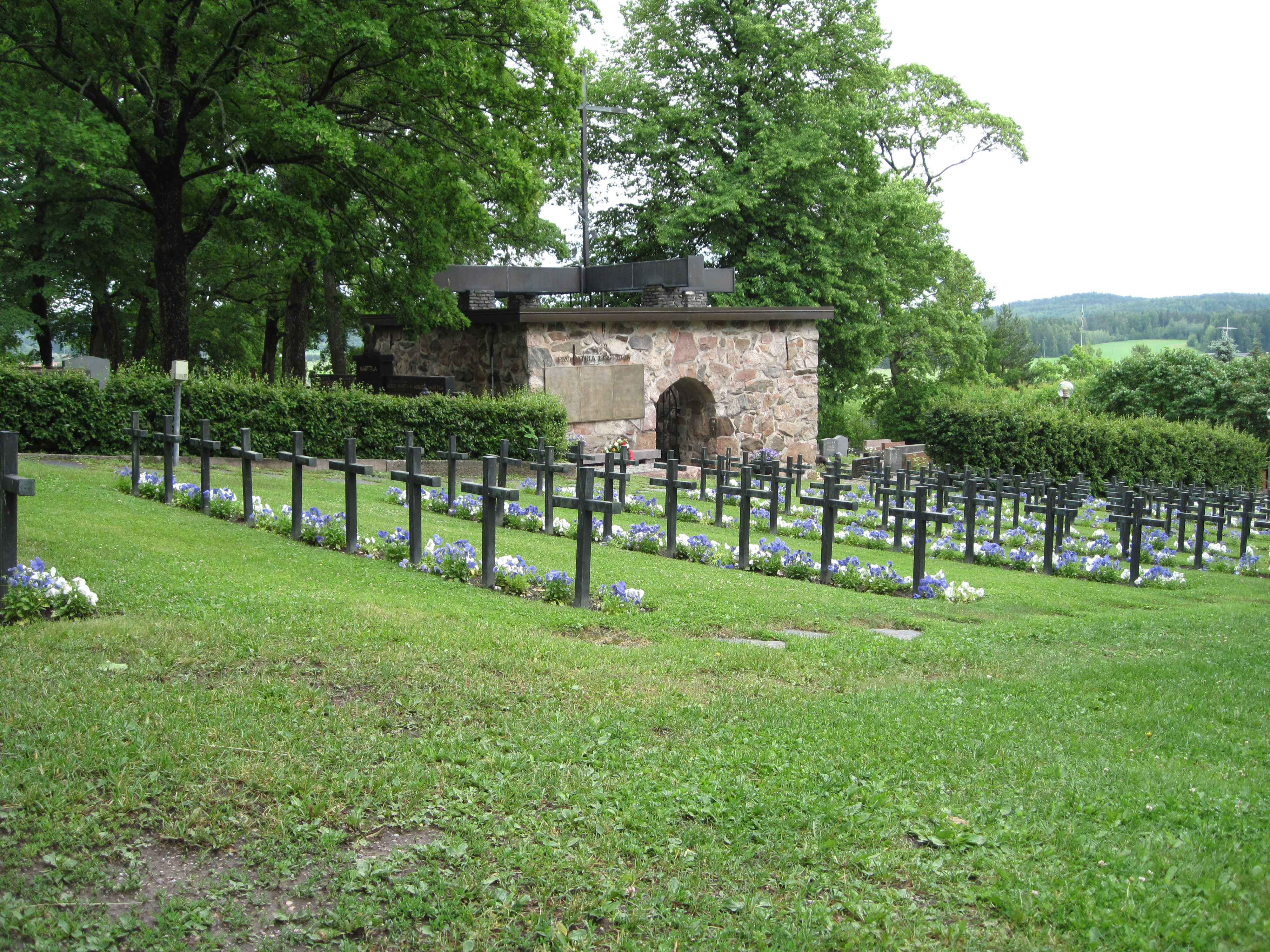 Military cemetary at church in Uskela (Salo), Finland